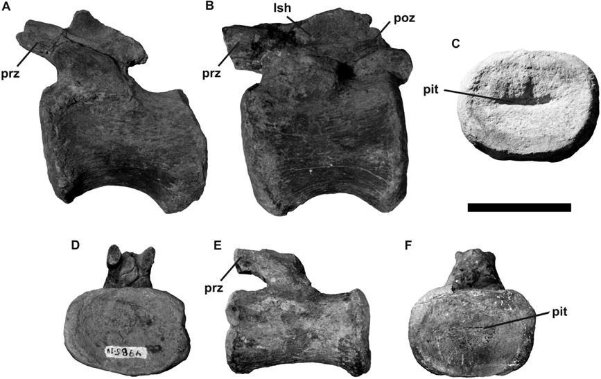 Lusotitan atalaiensis. Photographs of middle-posterior caudal vertebrae: A, CdH in left lateral view; B, CdI in left lateral view; C, CdM in posterior view; CdR in (D) anterior, (E) left lateral, and (F) posterior views. Abbreviations: lsh, lateral shelf; poz, postzygapophysis; prz, prezygapophysis. Scale bar = 100 mm.